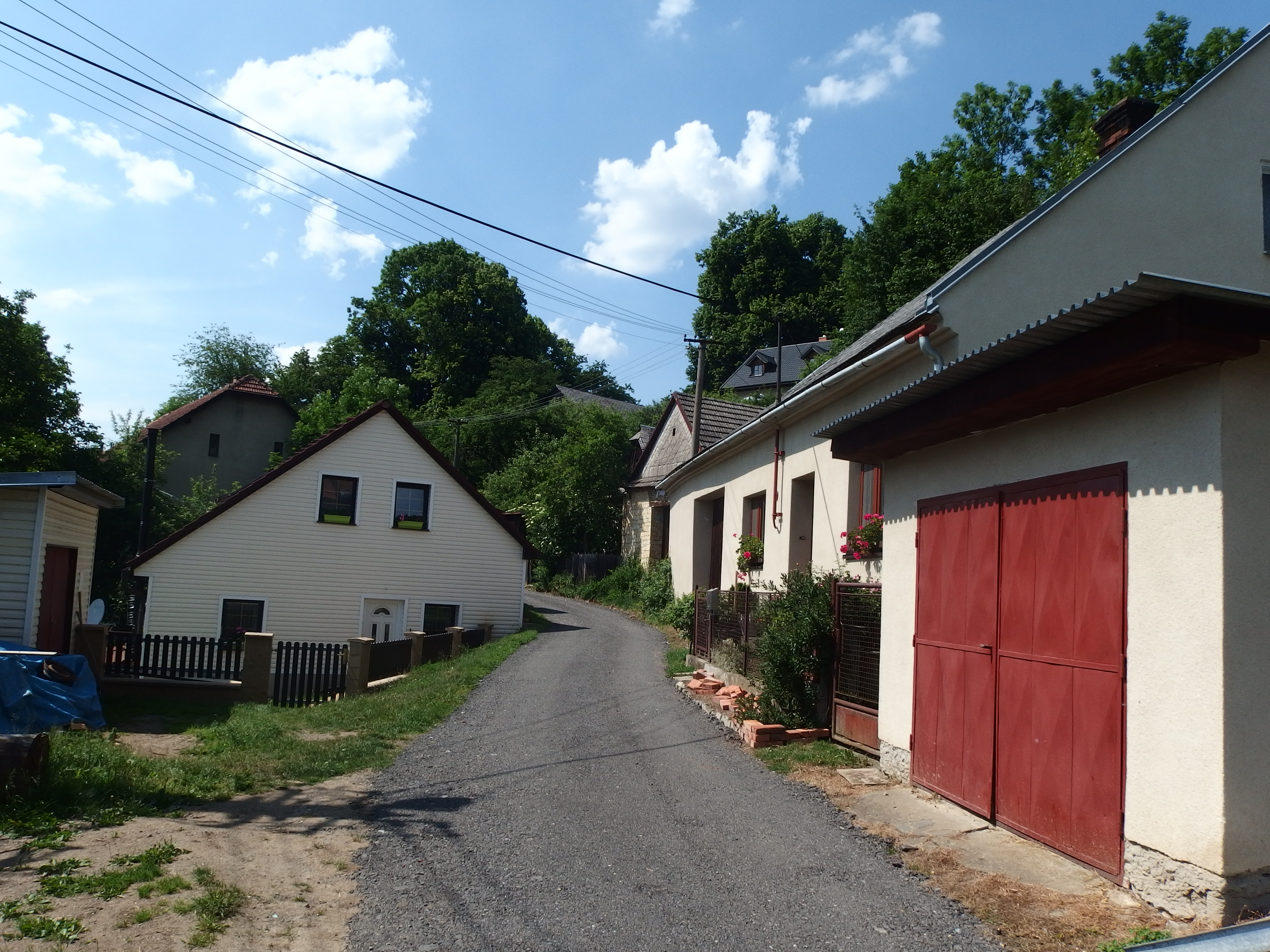 Svojanov, Svitavy District, Czech Republic, part Studenec.